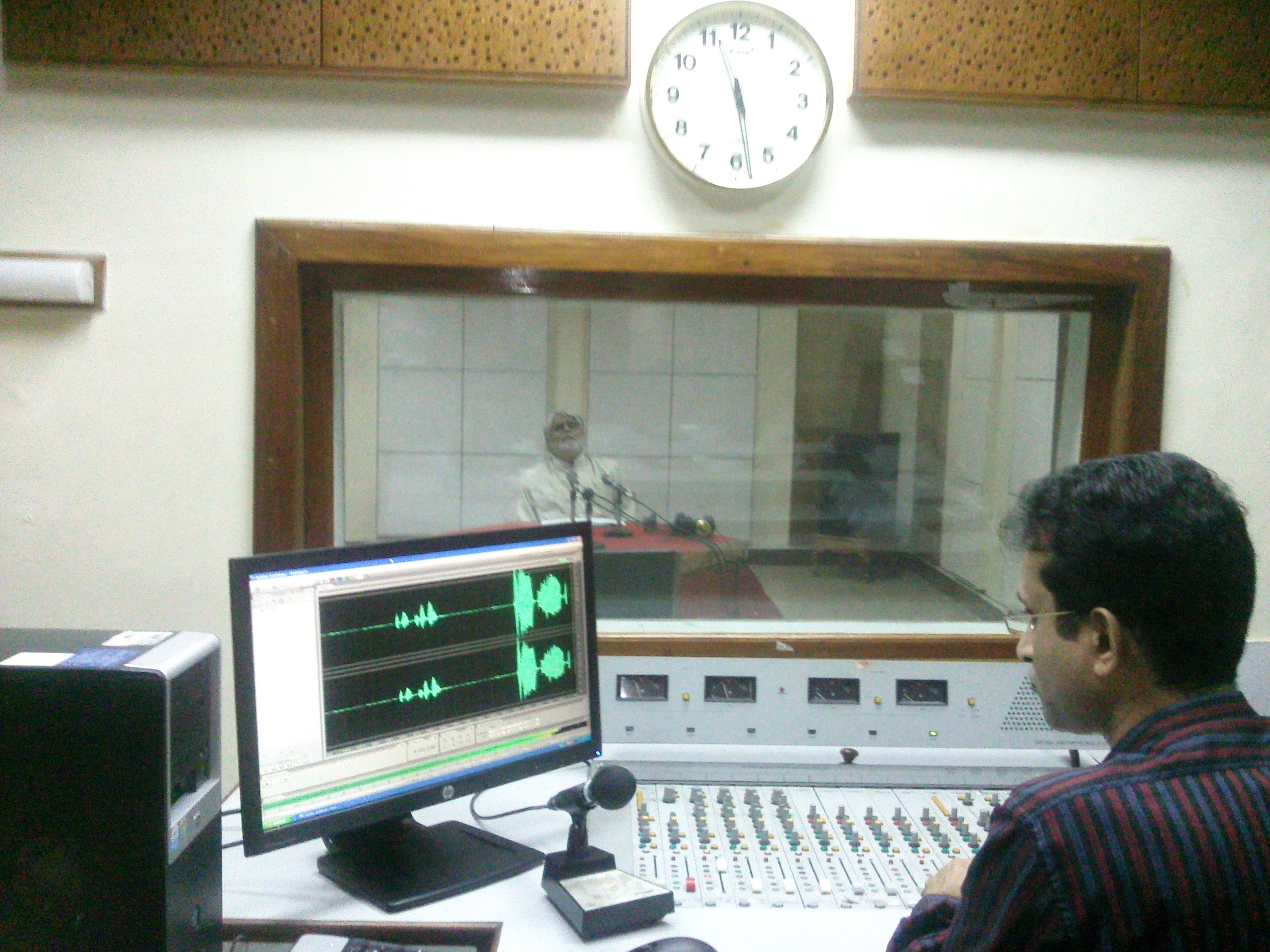 عزیز بلگامی آل انڈیا ریڈیو پورٹبلیر